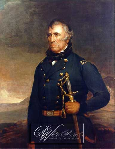 U.S. President Zachary Taylor